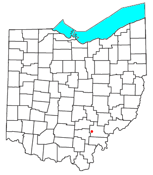 Locator map of the unincorporated community of New Marshfield in Athens County, Ohio, United States.